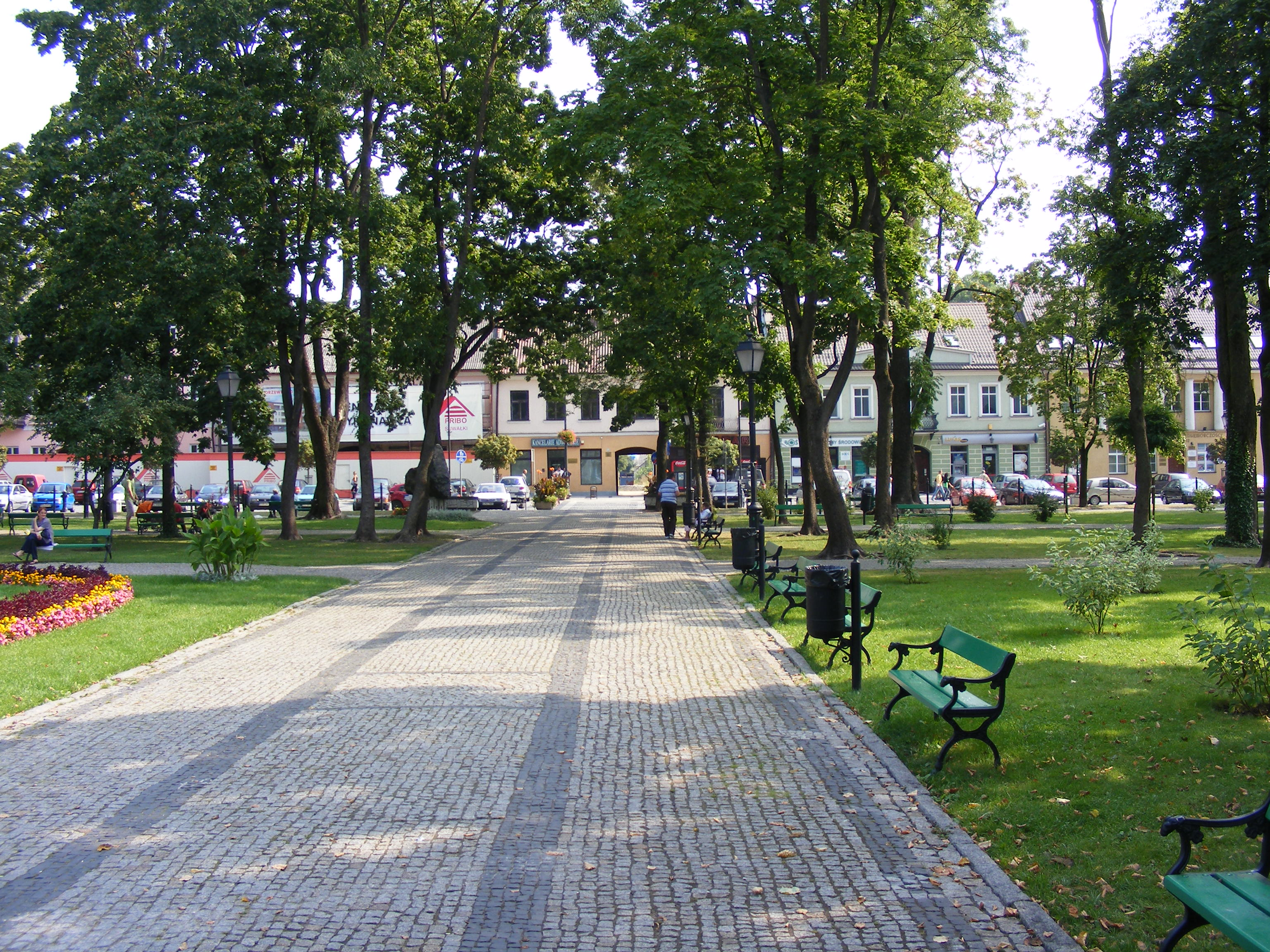 Kościuszko street seen from Park of the 3rd May Constitution in Suwałki.